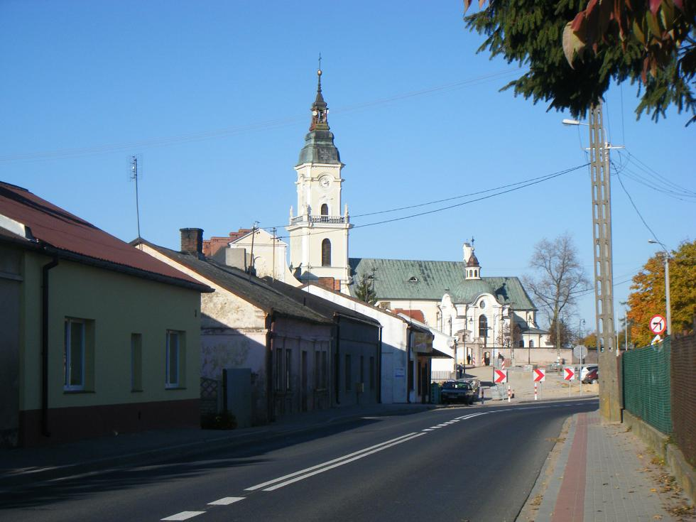 Brdów - big village in north-central Poland, pop.: 1,195 people. Voivodeship route number 270, St. Adalbert's of Prague catholical church.